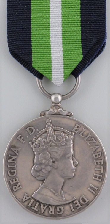 British long service medal for 18 years in the prison service of British colonies and overseas territories.